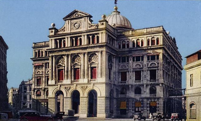 Chamber of Commerce Havana, Cuba from 1920